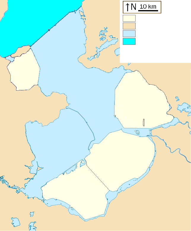 Map to be used for templates